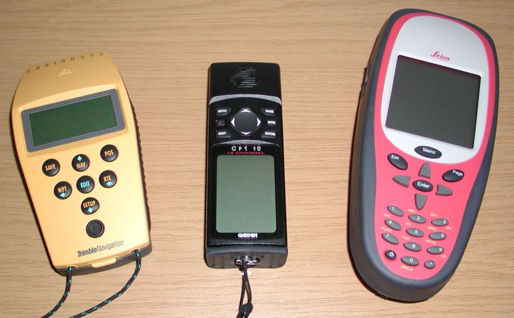 GPS receivers from Trimble, Garmin und Leica